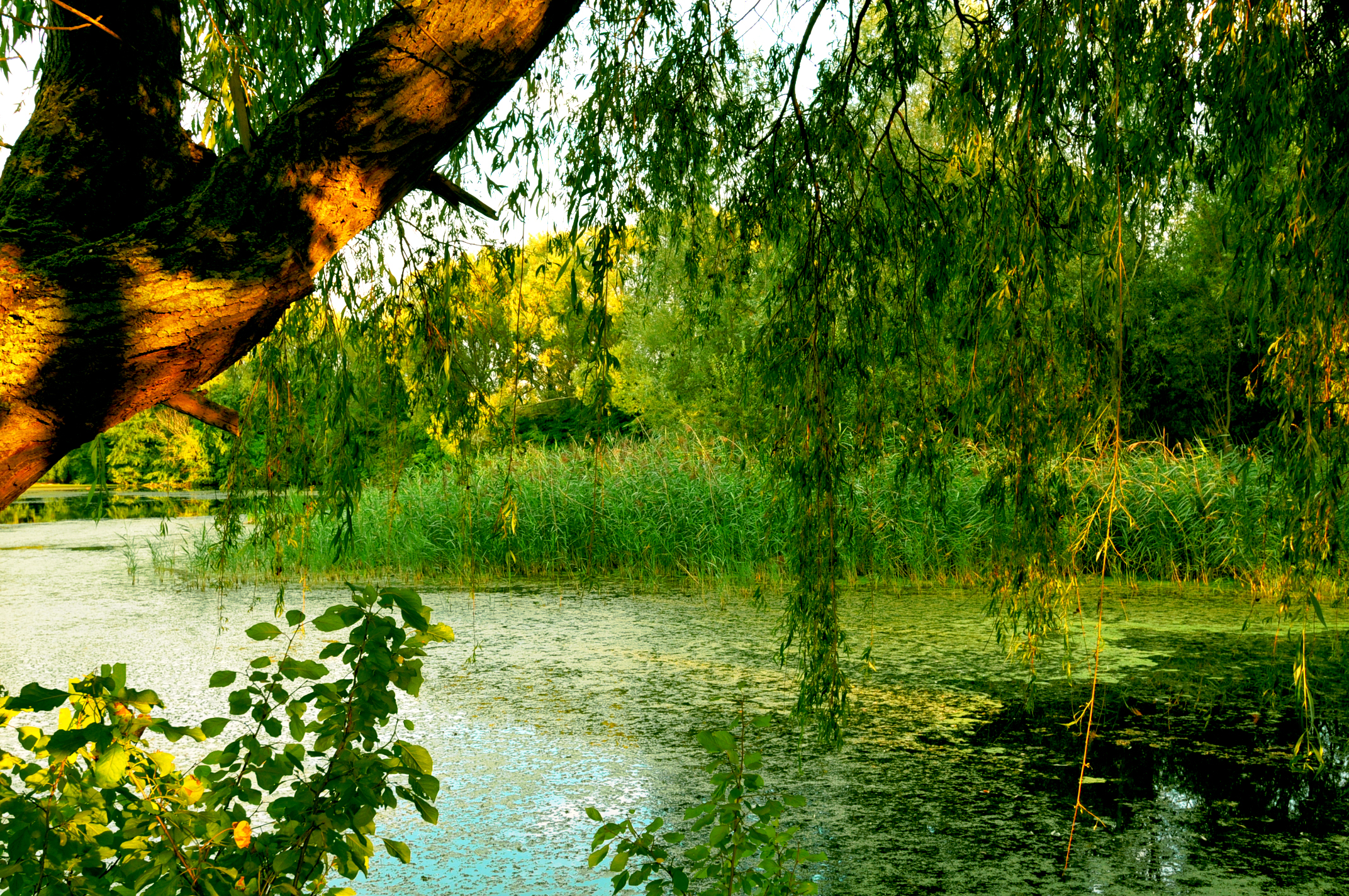 Pond near Wülfingen in Elze, district Hildesheim, Lower Saxony, Germany.